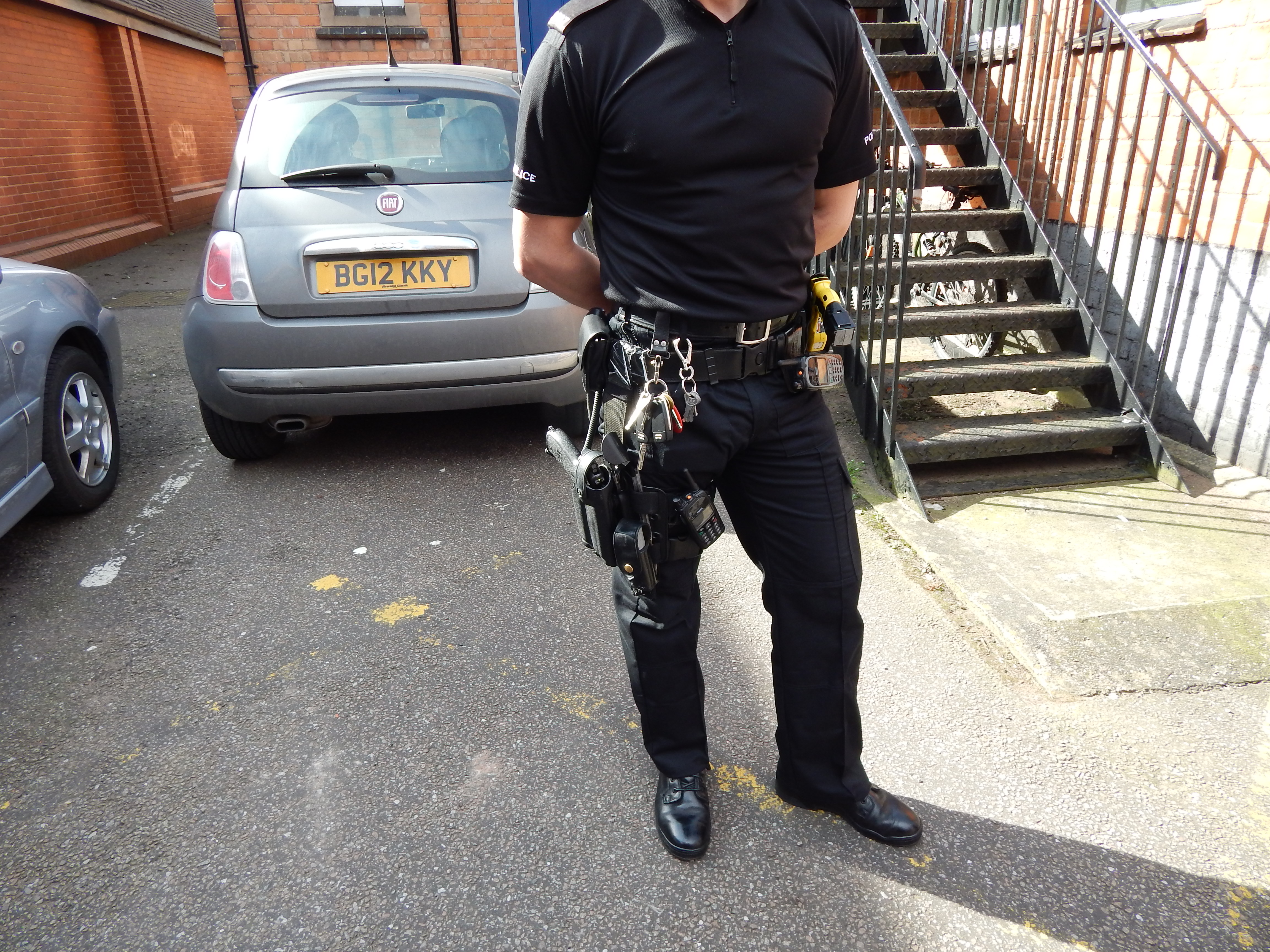 An armed response officer of West Midlands Police, photographed at Sparkhill police station with the kind permission of the officer on the condition that the officer would not be identifiable from the photograph. The officer is equipped with a sidearm and a Taser gun